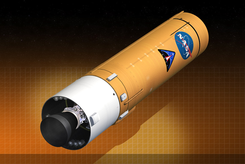 Artist Concept: Ares I Upper Stage